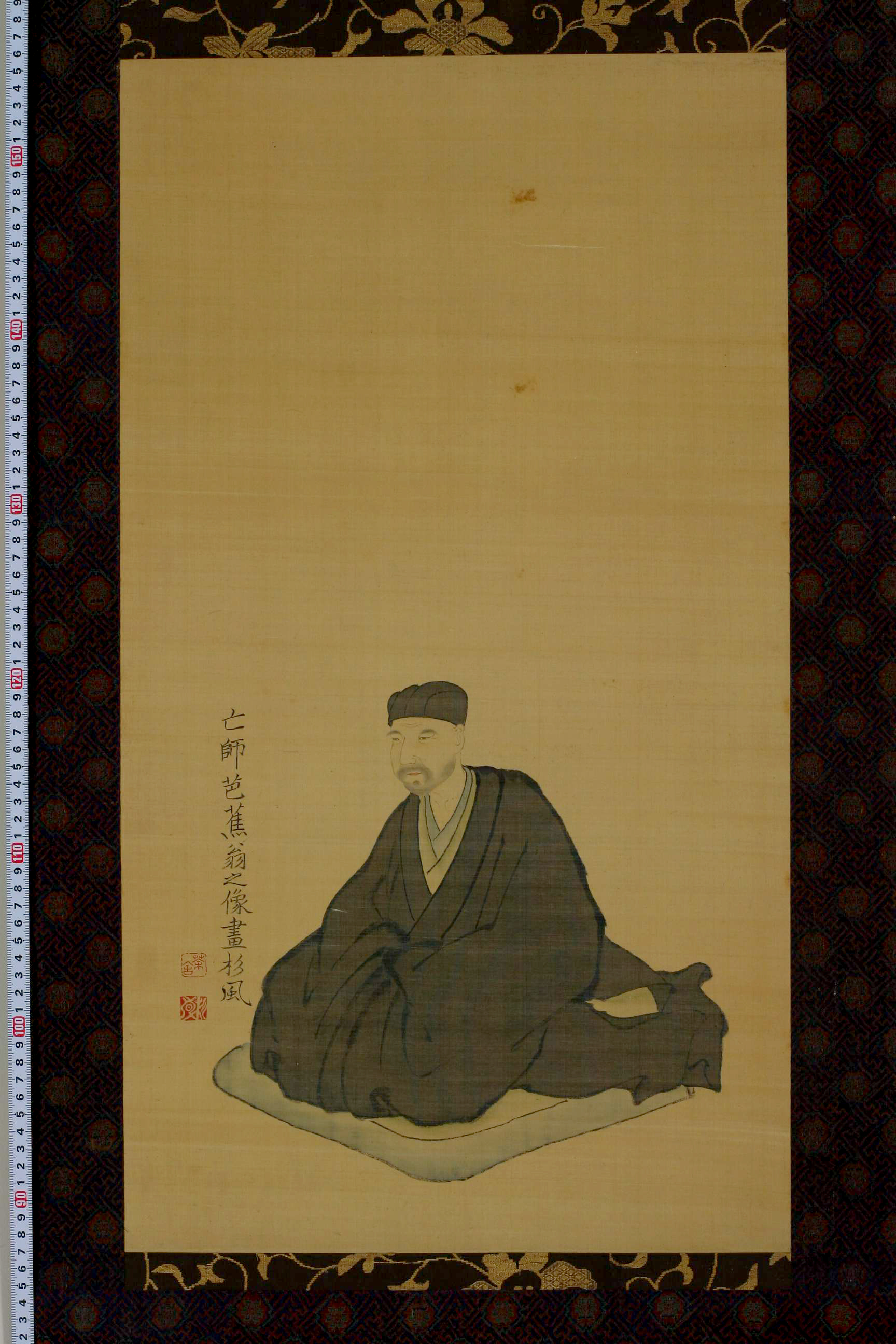 Matsuo Basho by Sugiyama Sanpū 杉山杉風 (1647-1732) Сугияма Сампу (Sugiyama Sanpū) 杉山杉風 (1647-1732) хайкай-поэт периода Эдо и ученик Мацуо Басё.